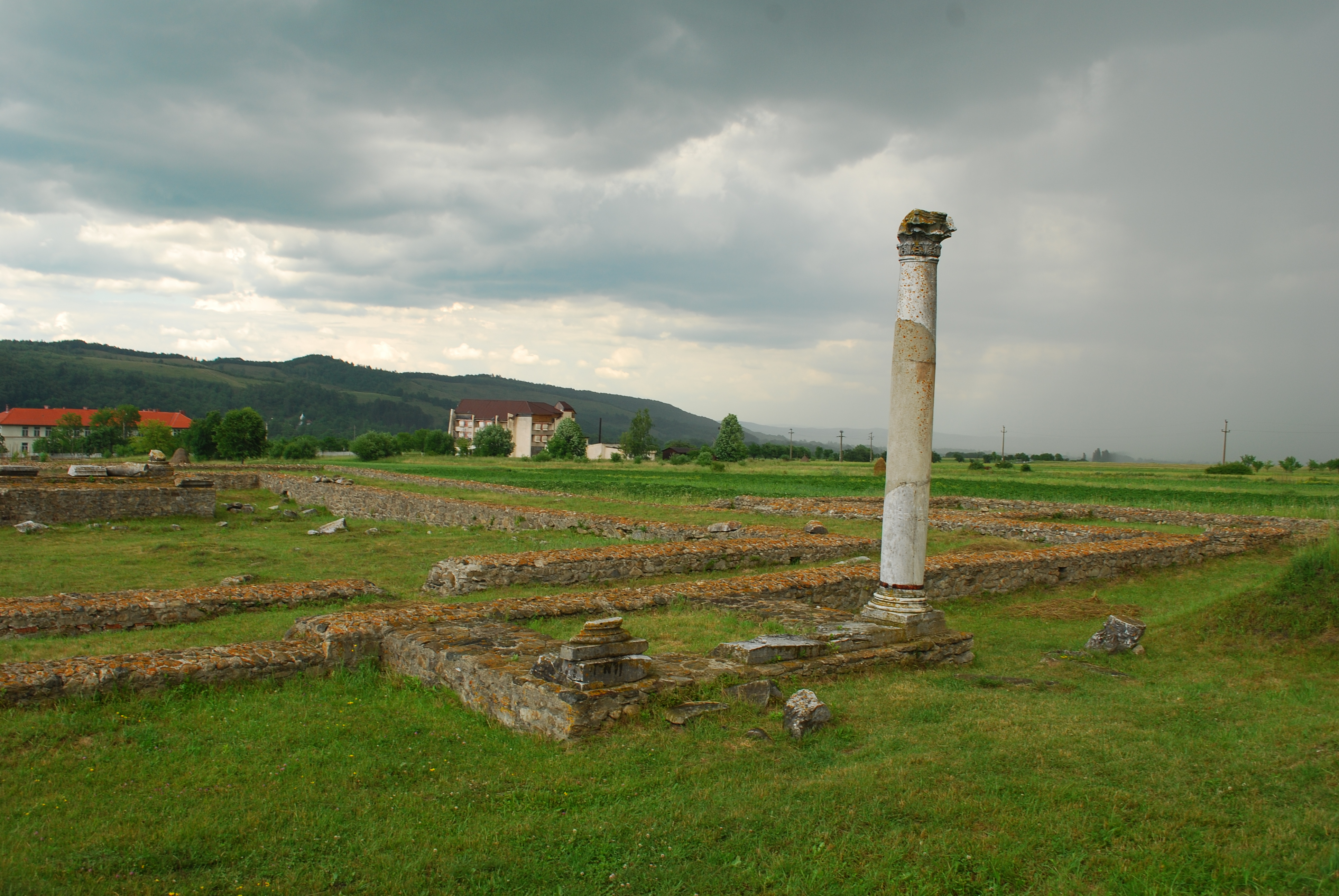 The Great Temple in Ulpia Traiana Sarmizegetusa, Hunedoara County, RomaniaRomână: Templul cel mare de la Ulpia Traiana Sarmizegetusa, judeţul Hunedoara, România